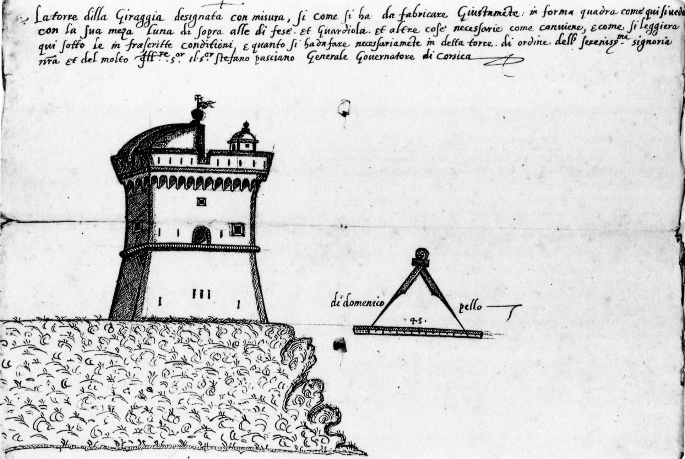 Drawing of the Tour de la Giraglia, Corsica